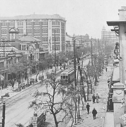 Ginza circa 1920